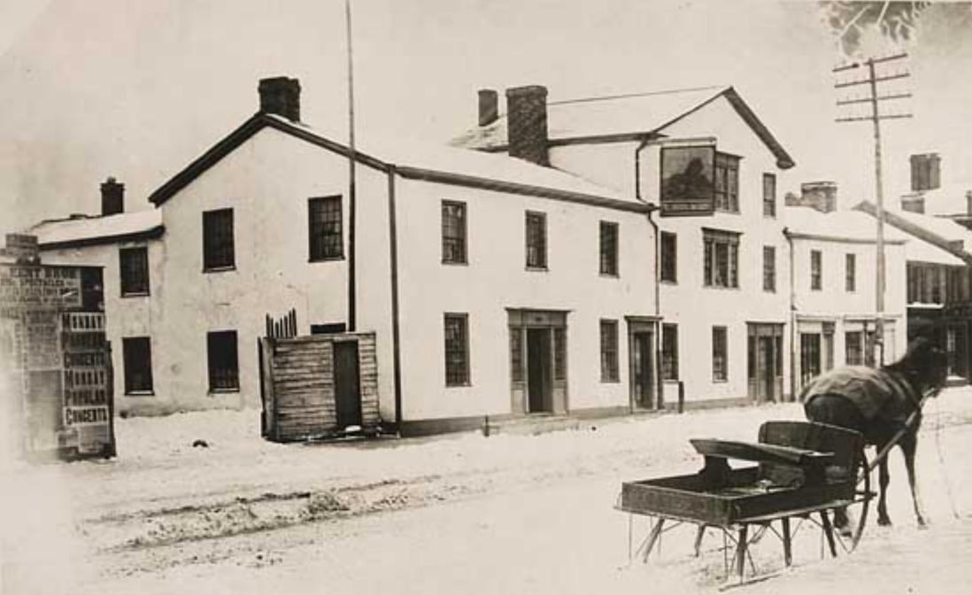 The Red Lion Inn, Toronto, Canada.